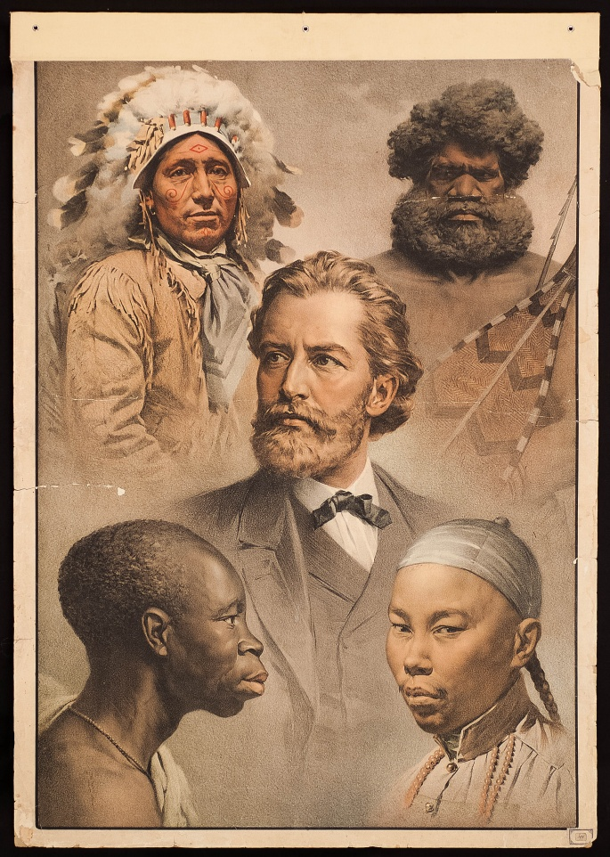 The "Five Races of Man" (American/Amerind, Australian/Australoid, European/Caucasoid, African/Negroid, Asian/Mongoloid), chromolithographic poster, 840 x 590 mm (image), 890 x 635 mm (sheet)